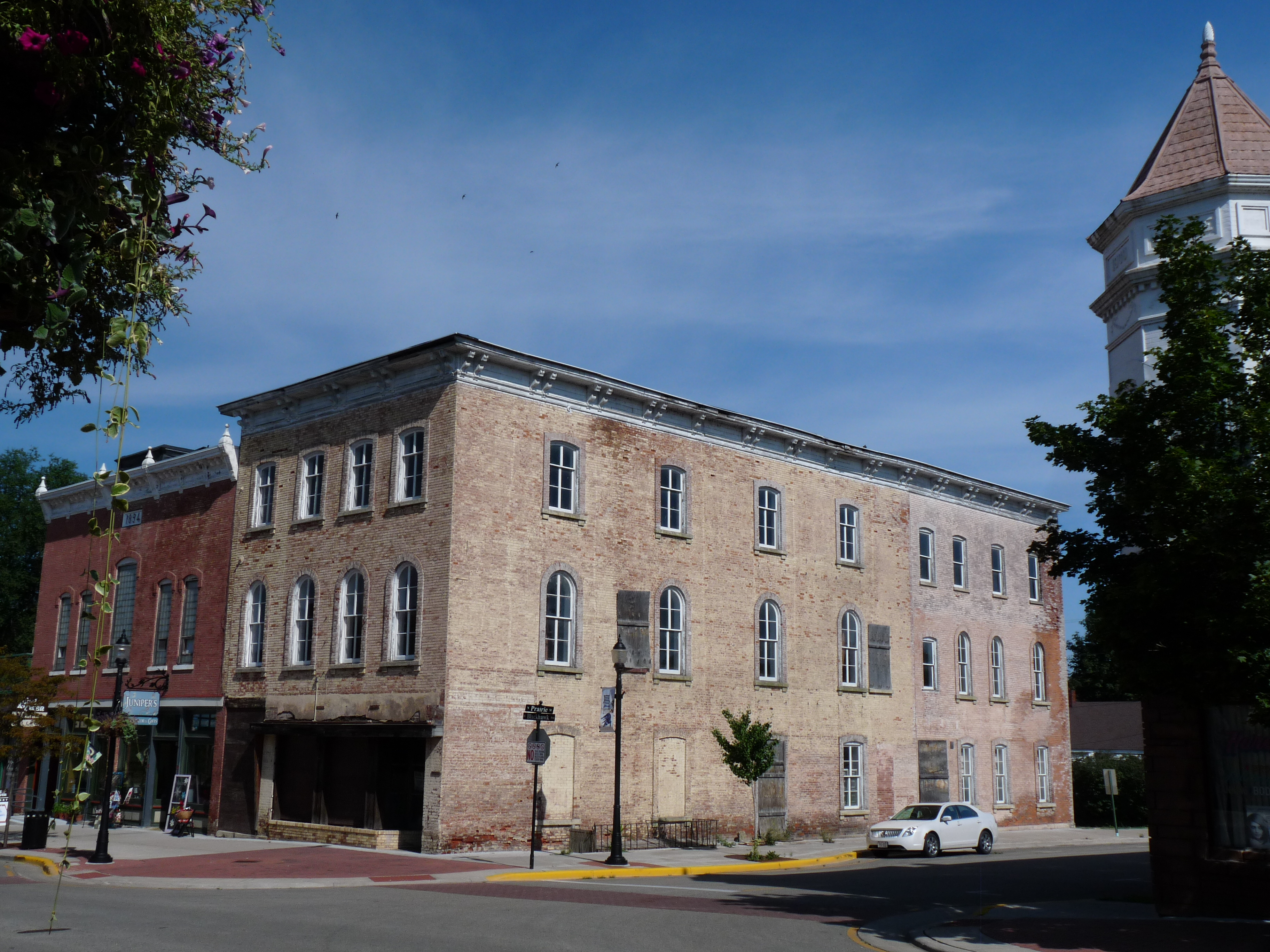 Commercial building in Prairie du Chien, Wisconsin, built in 1866. Today it is listed on the National Register of Historic Places.